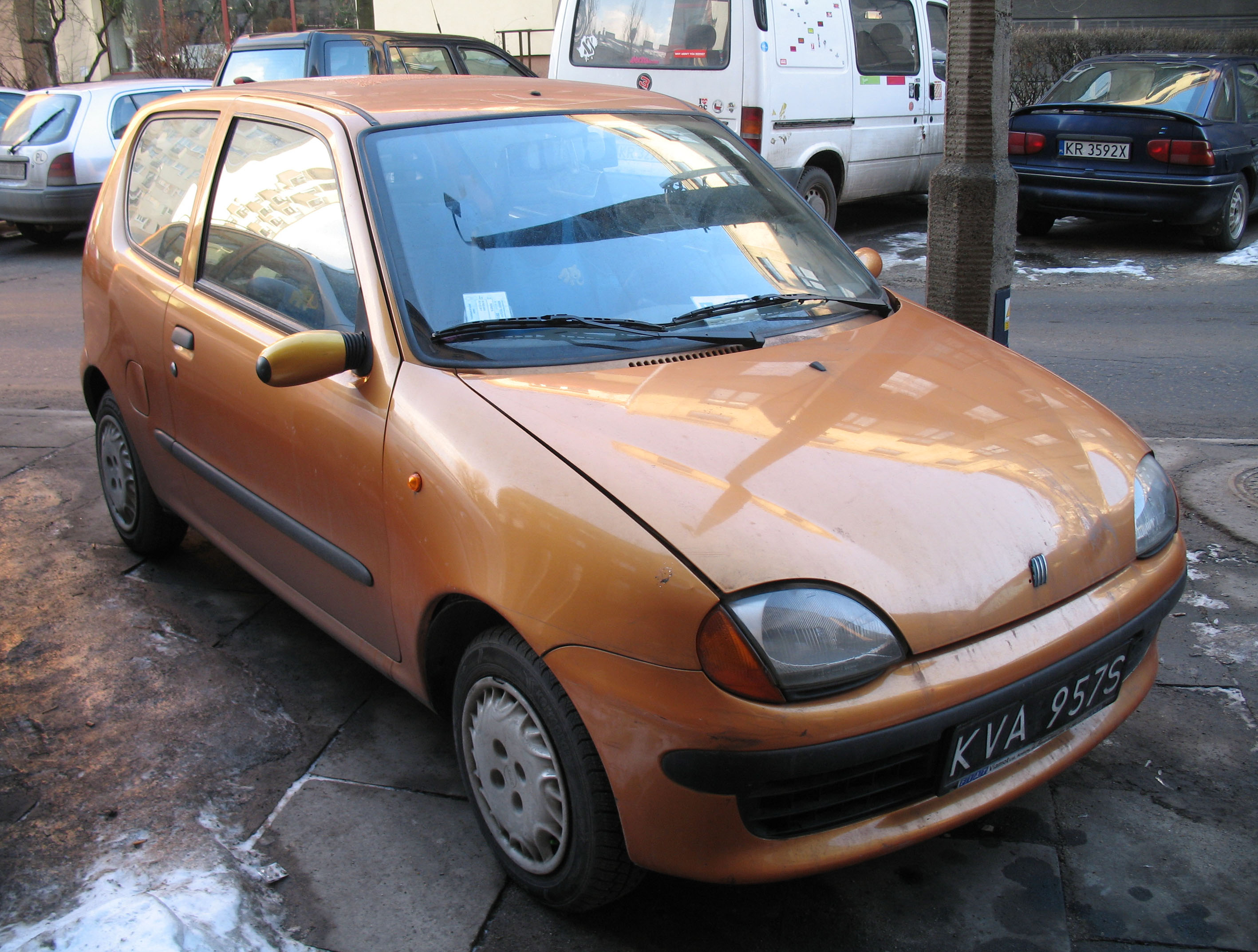 Golden Fiat Seicento Hobby car in Kraków, Poland.